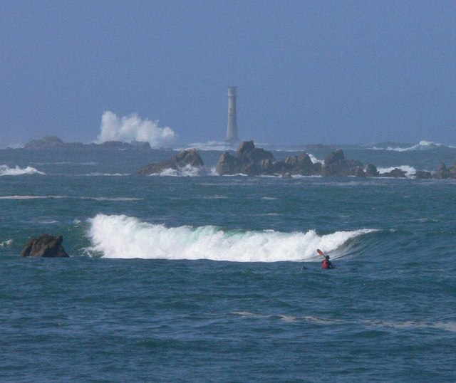 Bishop Rock from Periglis Bay. I took this picture from the island of St Agnes (Scillies) while on Periglis beach.